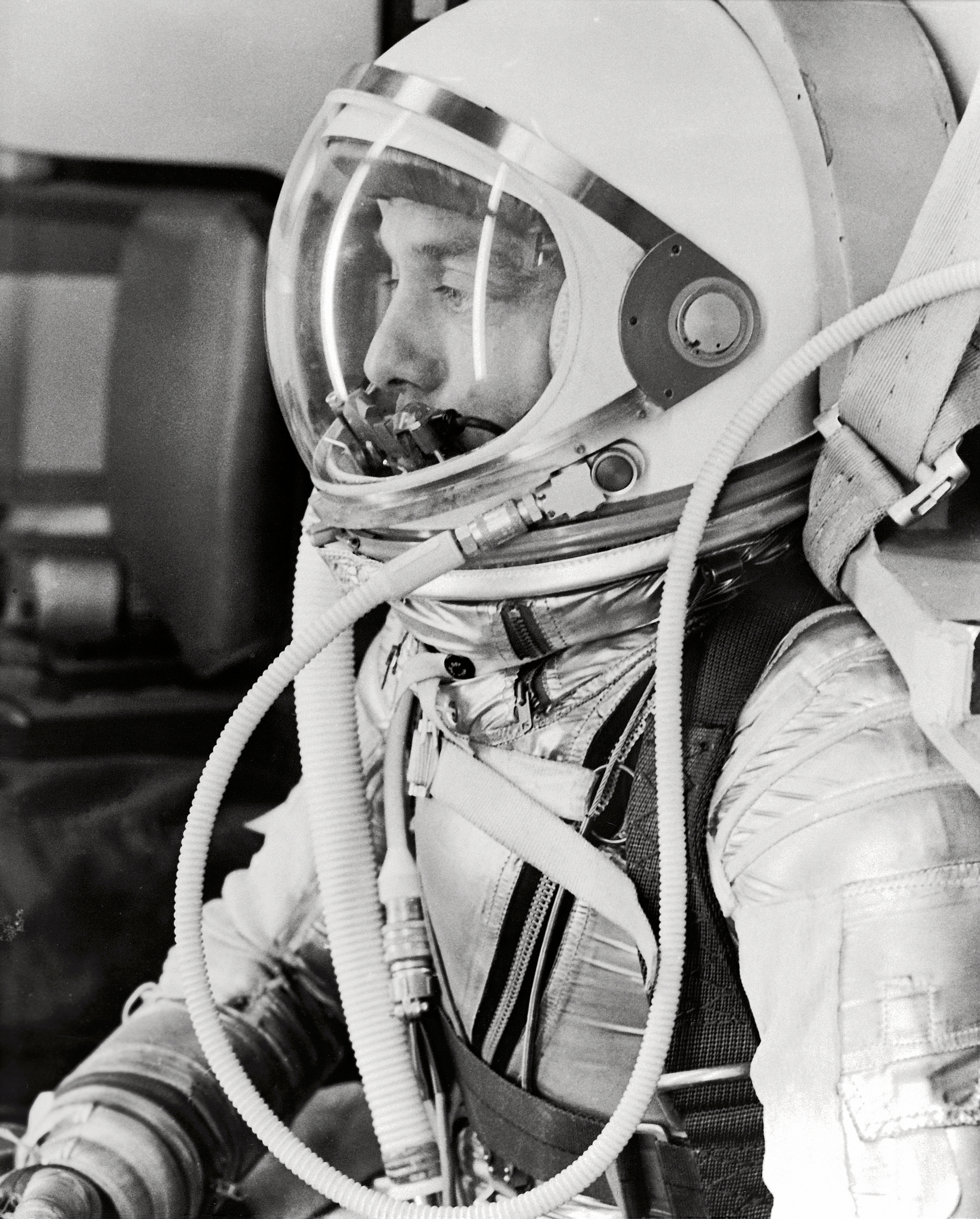 Profile of astronaut Alan Shepard in his silver pressure suit with the helmet visor closed as he prepares for his upcoming Mercury-Redstone 3 (MR-3) launch. On May 5th 1961, Alan B. Shepard Jr. became the first American to fly into space. His Freedom 7 Mercury capsule flew a suborbital trajectory lasting 15 minutes 22 seconds. His spacecraft splashed down in the Atlantic Ocean where he and Freedom 7 were recovered by helicopter and transported to the awaiting aircraft carrier U.S.S. Lake Champlain.